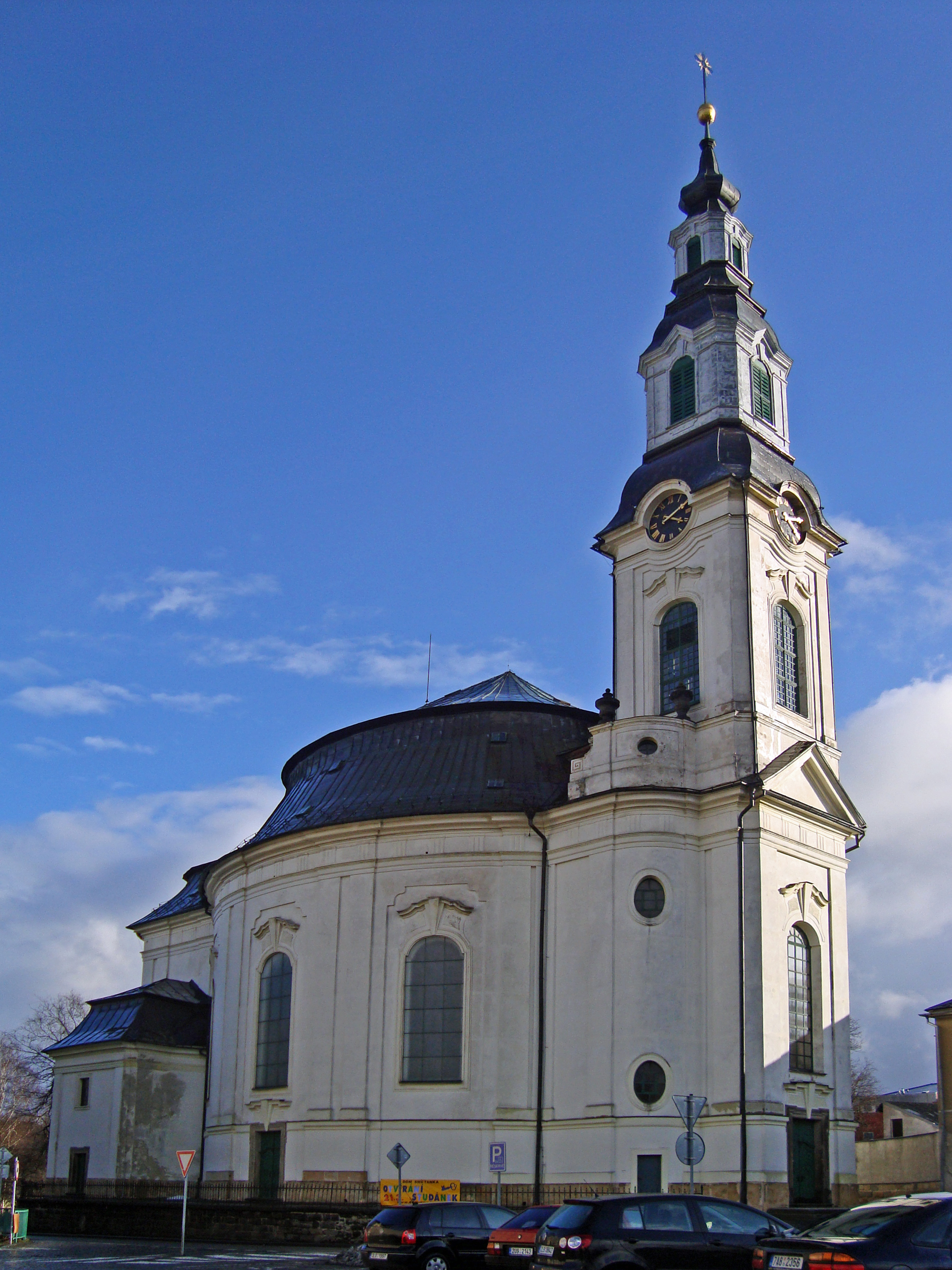 Church Nanebevzetí Panny Marie in Nový Bor